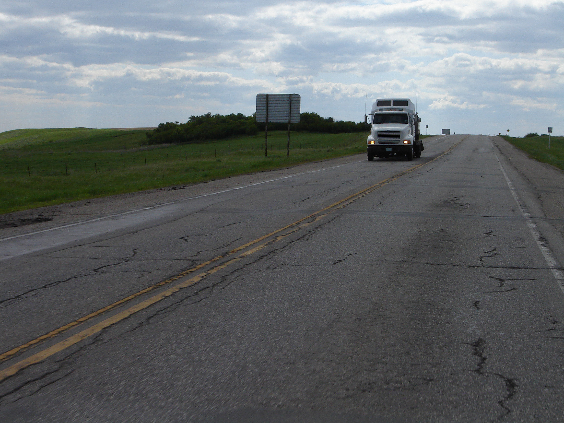 Two way section of SK highway 11 showing yellow double line in center of highway indicating passing is not allowed. Taken from Saskatchewan Highway 11, Louis Riel Trail travelling south from Saskatoon to Regina There is no divided highway near Chamberlain, Sk